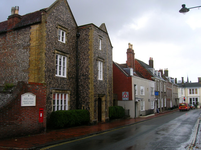 Lewes Old Grammar School, High Street This is the senior school which has roots back to the first grammar school set up in the town in 1512. The current building was erected in 1851.